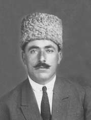 Halis Turgut Bey